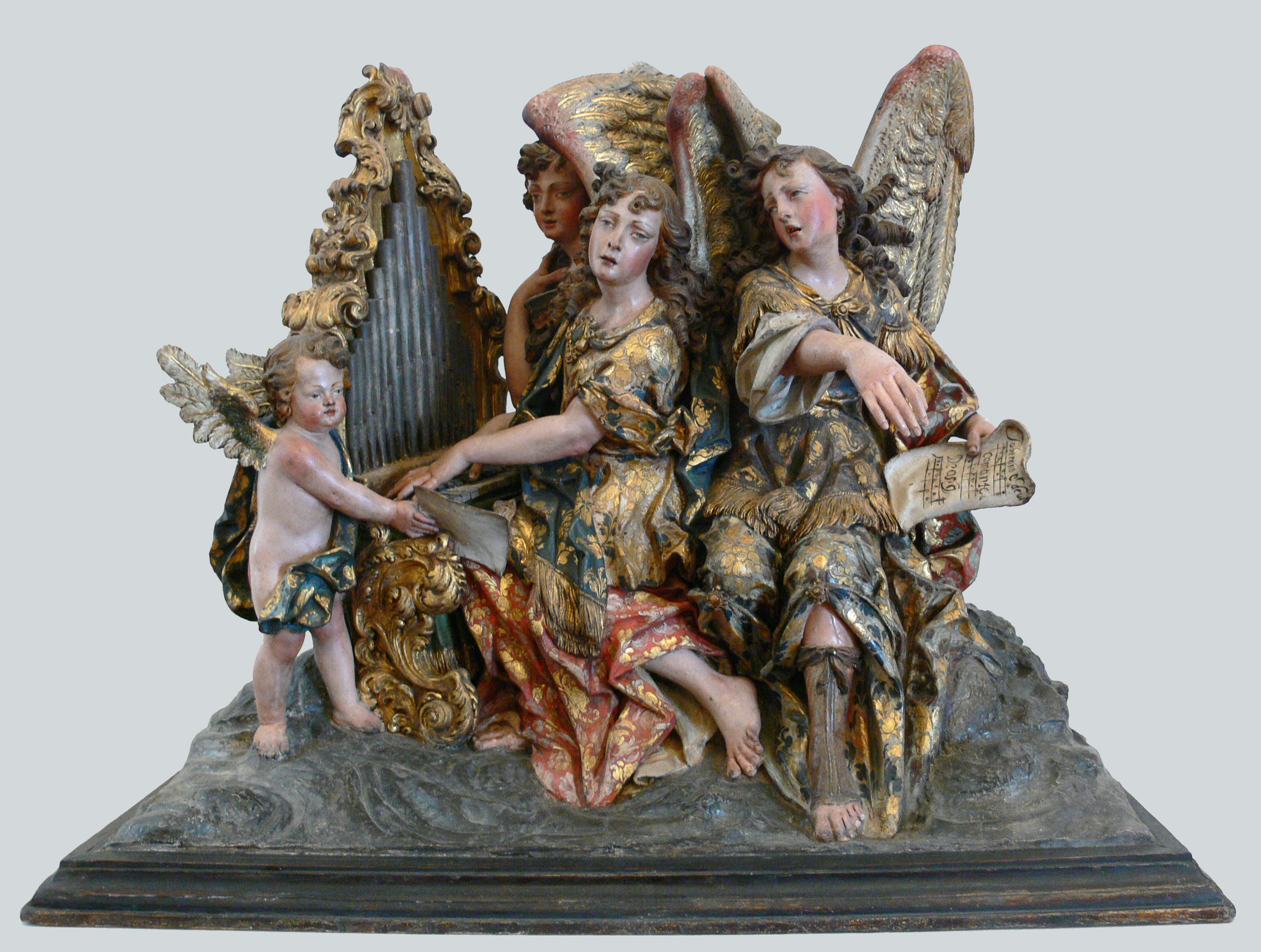 António Ferreira (?): Angels playing the organ and singing, terracotta, original colours; part of a nativity scene. Skulpturensammlung (Inv. 3016, donated in 1906 by Gerson Simon), Bode-Museum, Berlin.